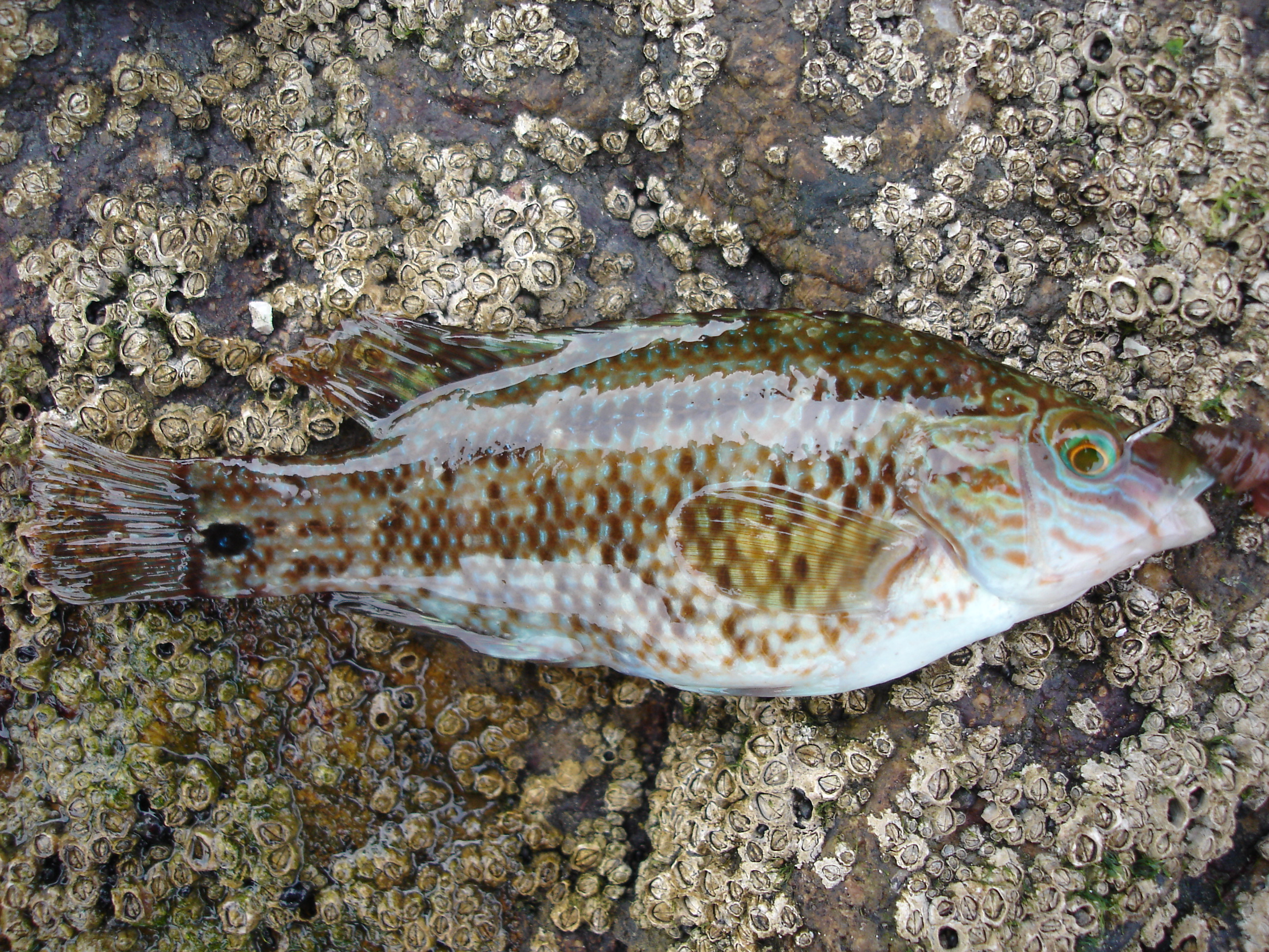 Symphodus melops